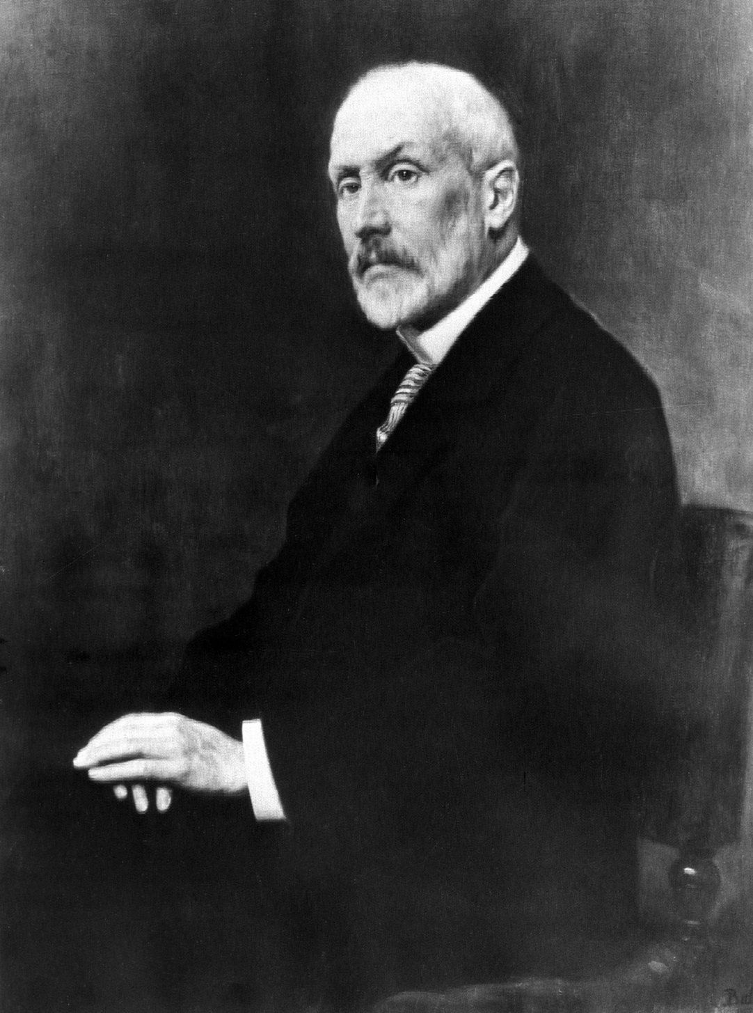 Lóránd Eötvös